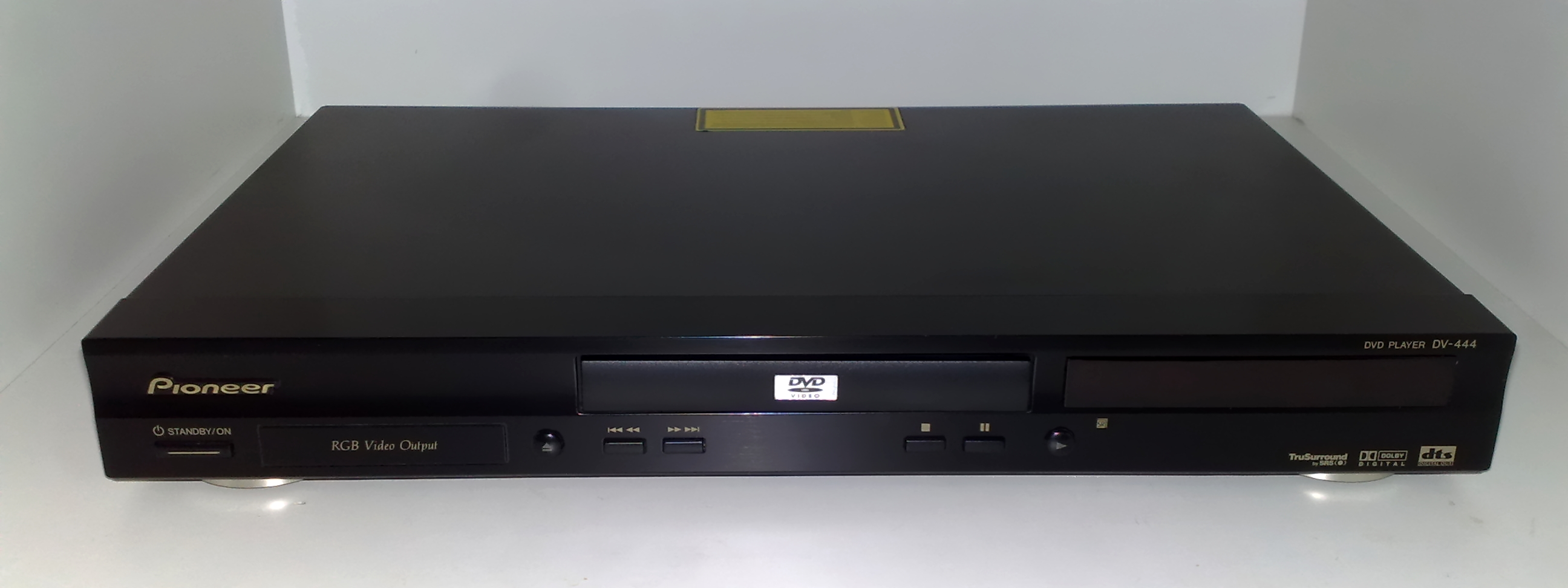 Pioneer DV-444-K DVD-player.